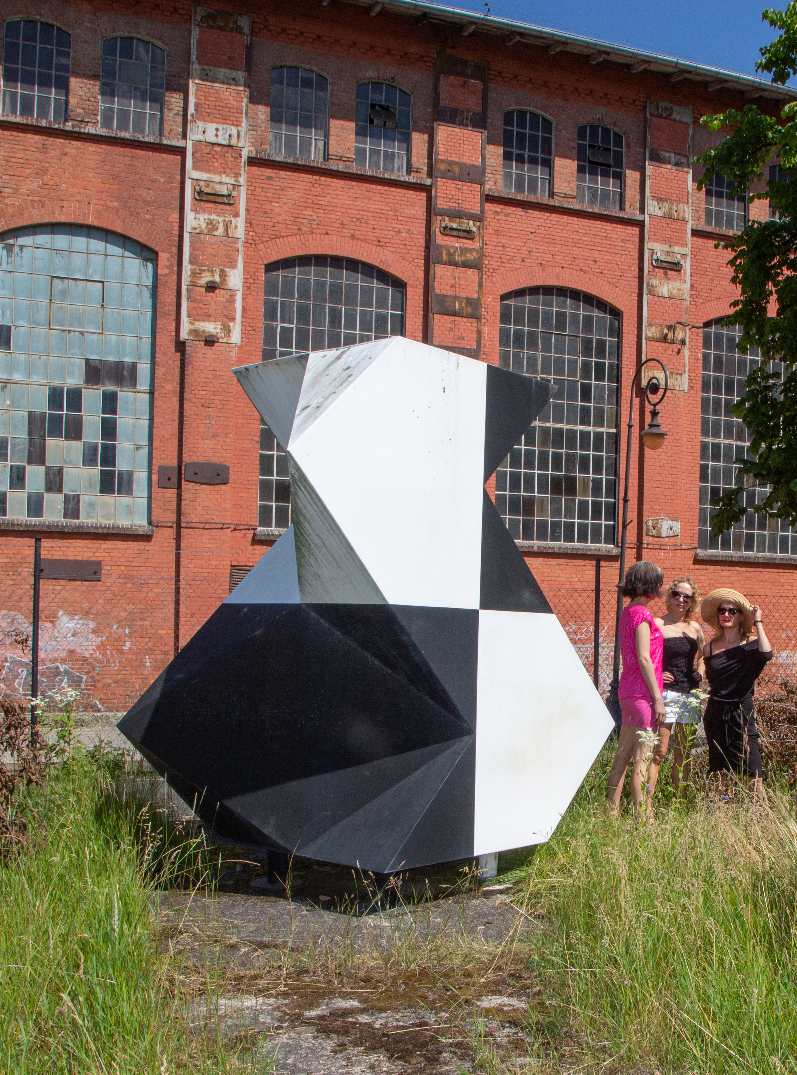 A spatial form created by Janusz Kapusta in 2012 during the artist's residence in Elbląg. It is located in the back of the Gallery EL courtyard, from Wałowa street. In the background, visual artists: Iwona Demko and Agata Zbylut with curator Karina Dzieweczyńska, while working on the project entitled "Congress of dreamers / Kongres Marzycielek” carried out at the Art Center Gallery EL.